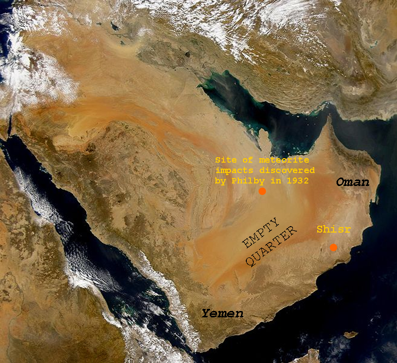 SeaWiFS collected this view of Arabia and of dust blowing across the Persian Gulf.